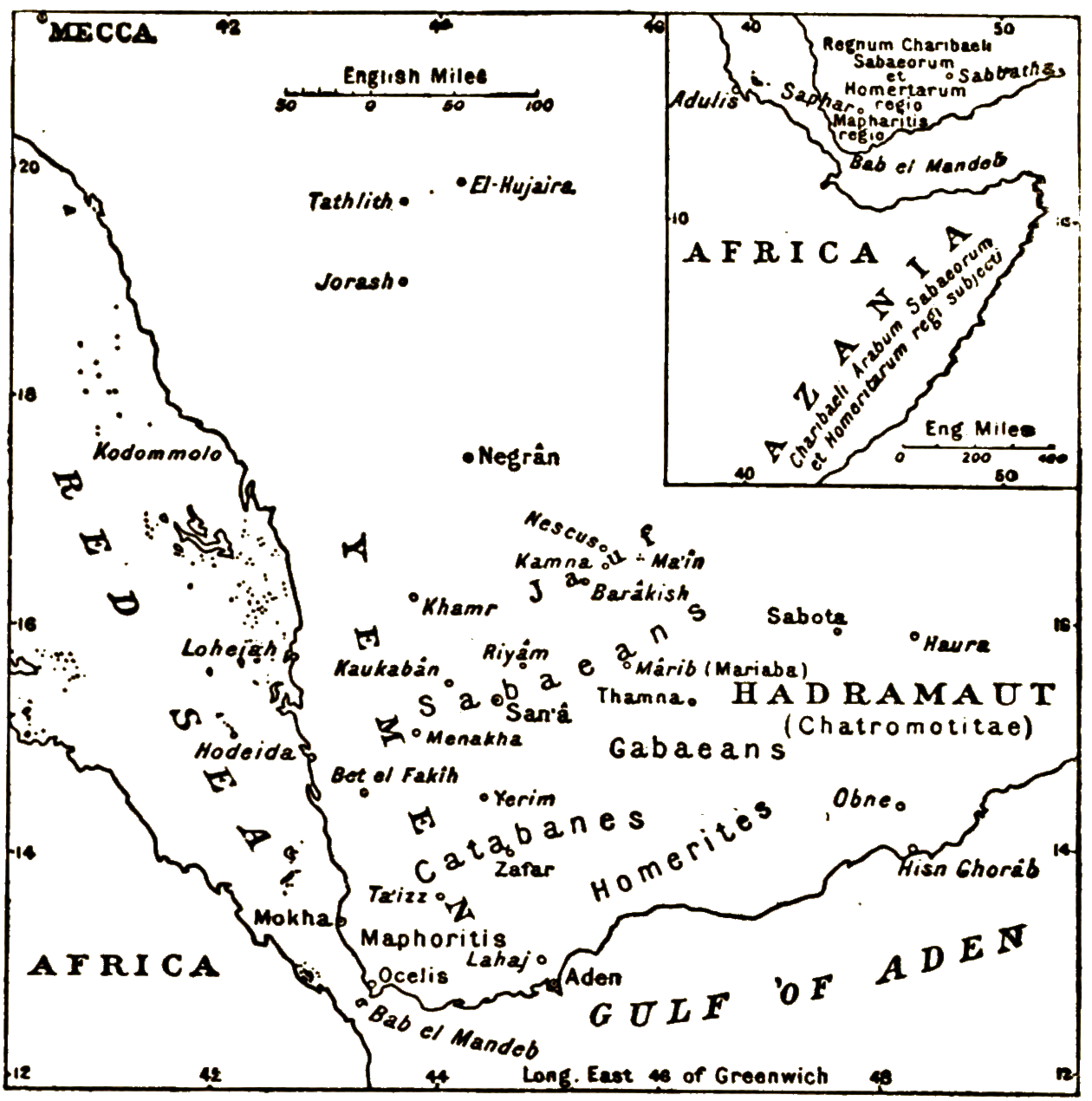 Caption: Map of Yemen.Unhelpfully and unannounced, the map blends 19th-century transcriptions of the present-day Arabic names and places with locations from a Latin translation of the 1st-century Periplus of the Erythraean Sea, including untranslated Latin explanations of the extent of the kingdom of "Charibael" (Karab'il). It also mistakes the text in placing Azania (the ancient Swahili Coast) directly under "Charibael", when the text of the periplus places it under the king's vassals at Mocha.